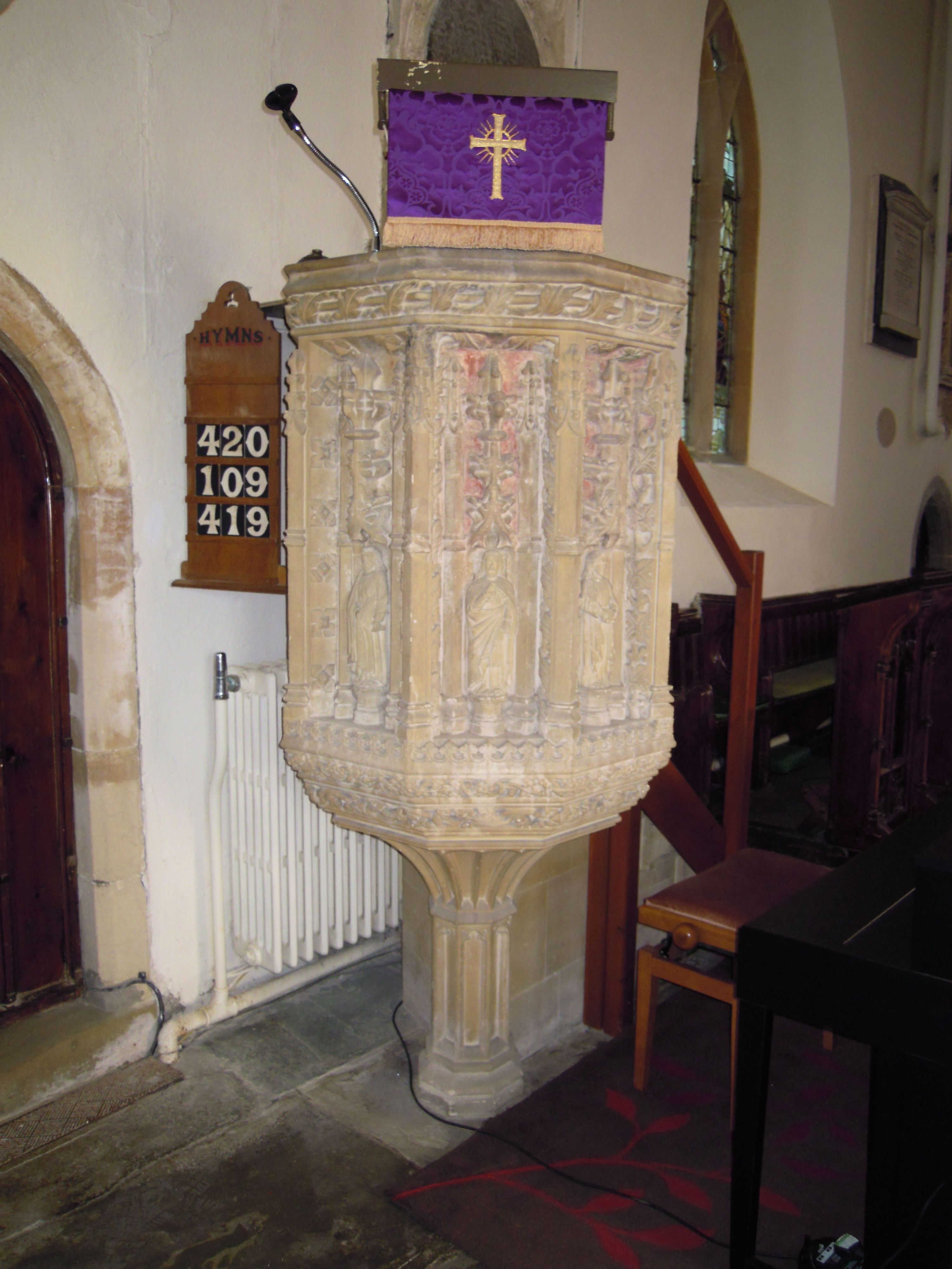 The heavily restored 15th-century pulpit in the Church of St Peter in Fremington in Barnstaple, Devon